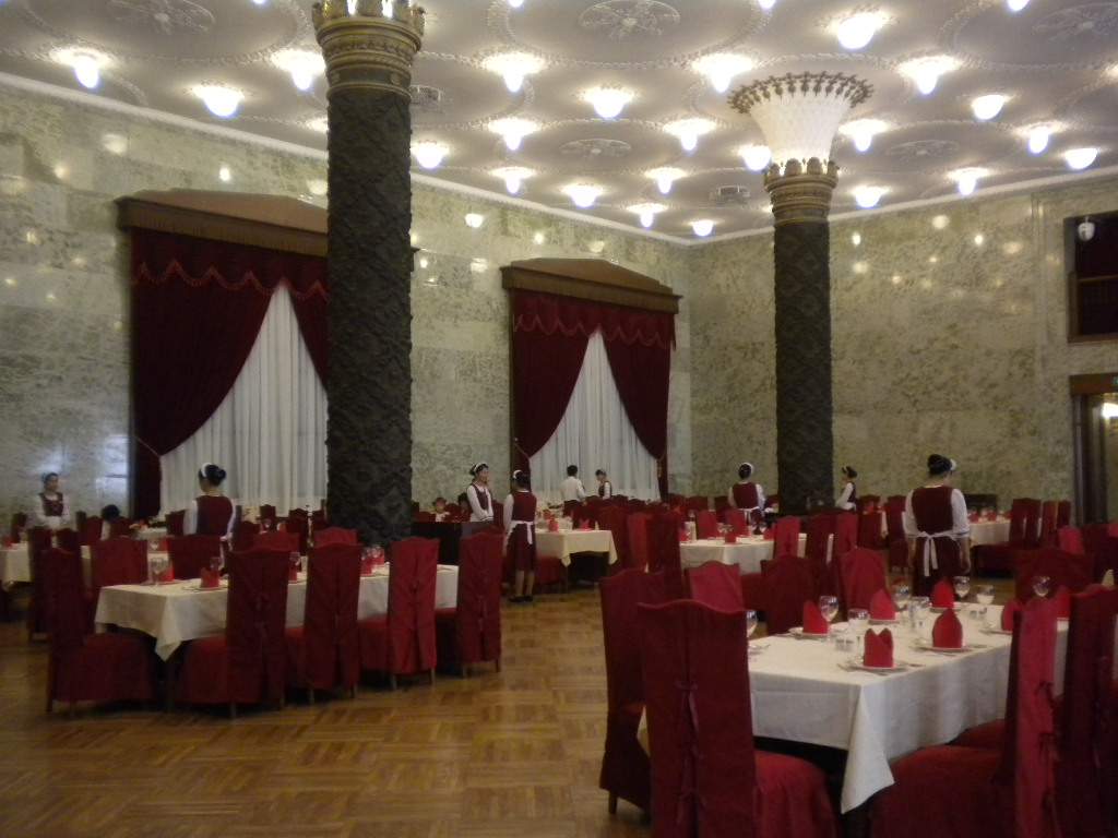 Nostalgic Soviet decoration.